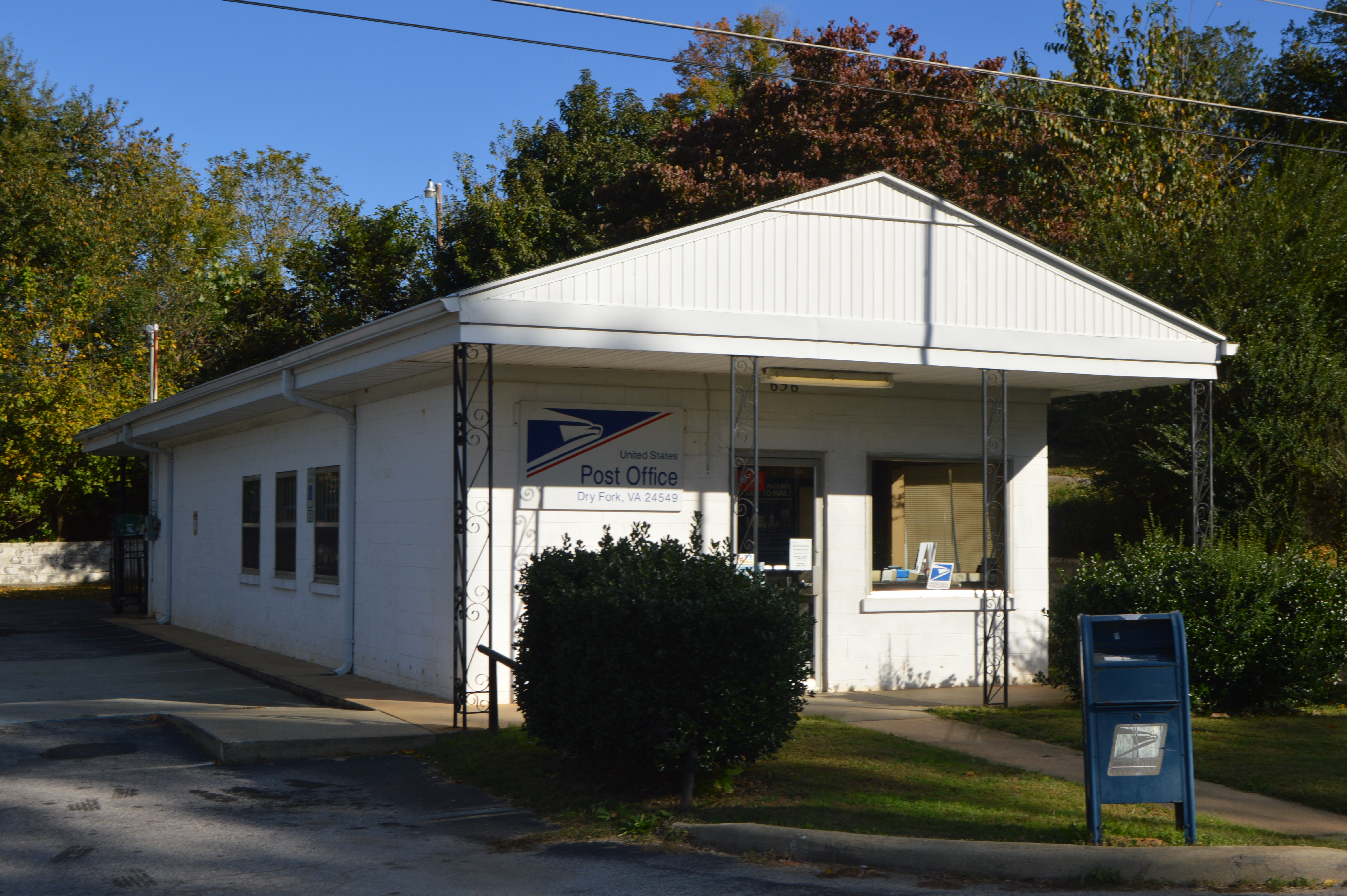 Front and western side of the Dry Fork post office, located at 656 Dry Fork Road in Dry Fork, Virginia, United States.